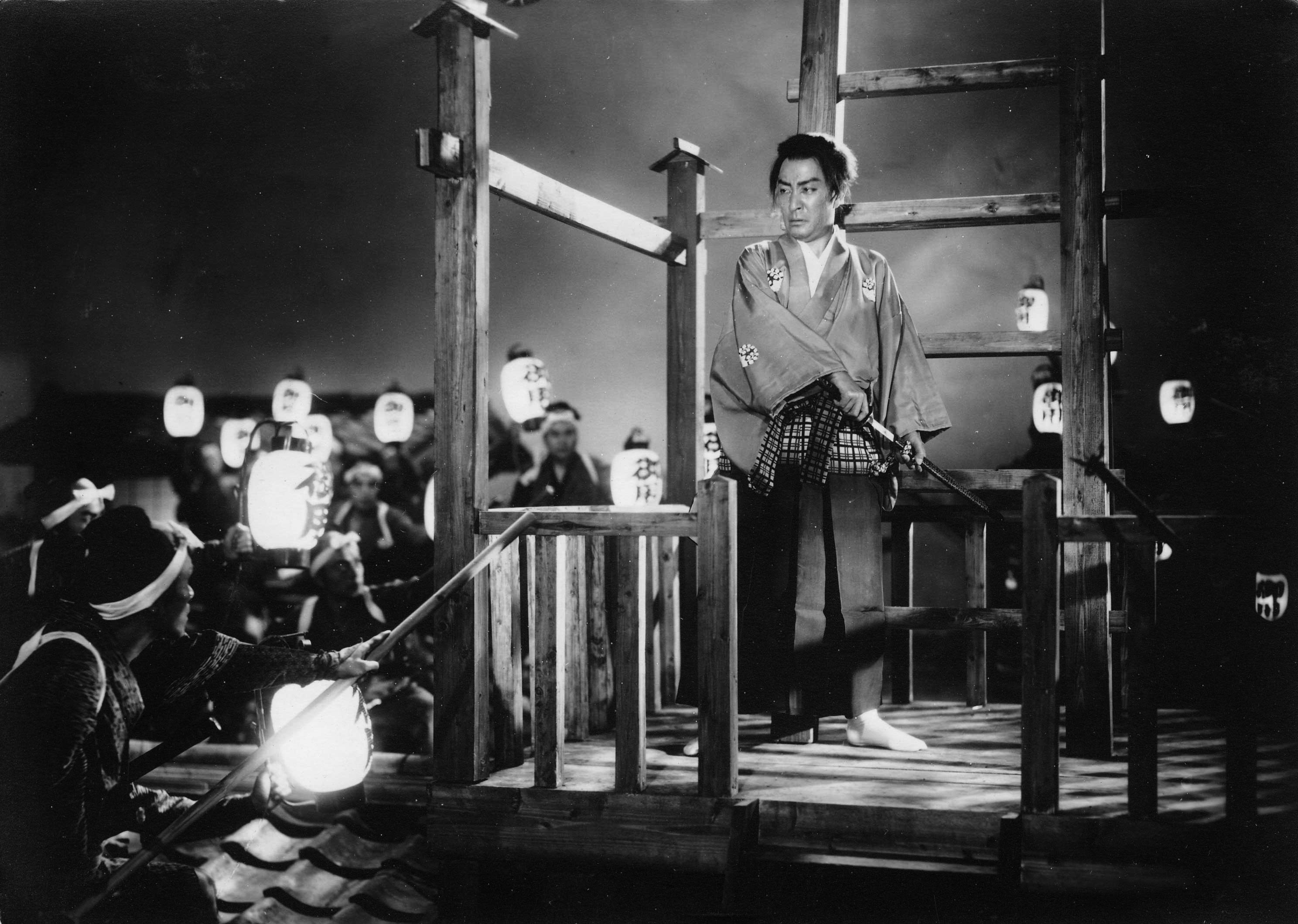 Tsumasaburō Bandō in Surōnin makaritōru (素浪人罷通る) directed by Daisuke Itō - 1947